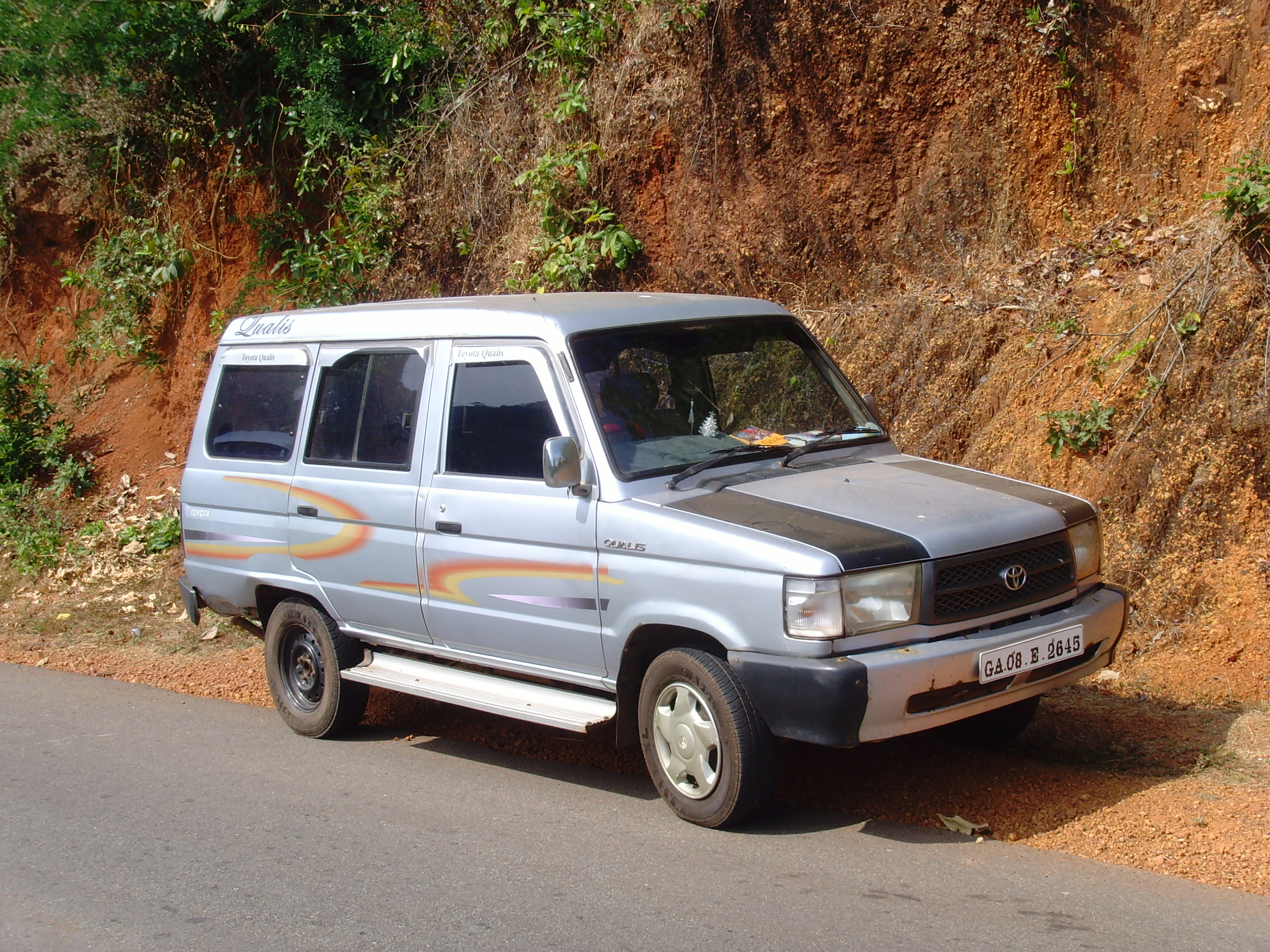 Toyota Qualis photographed in India